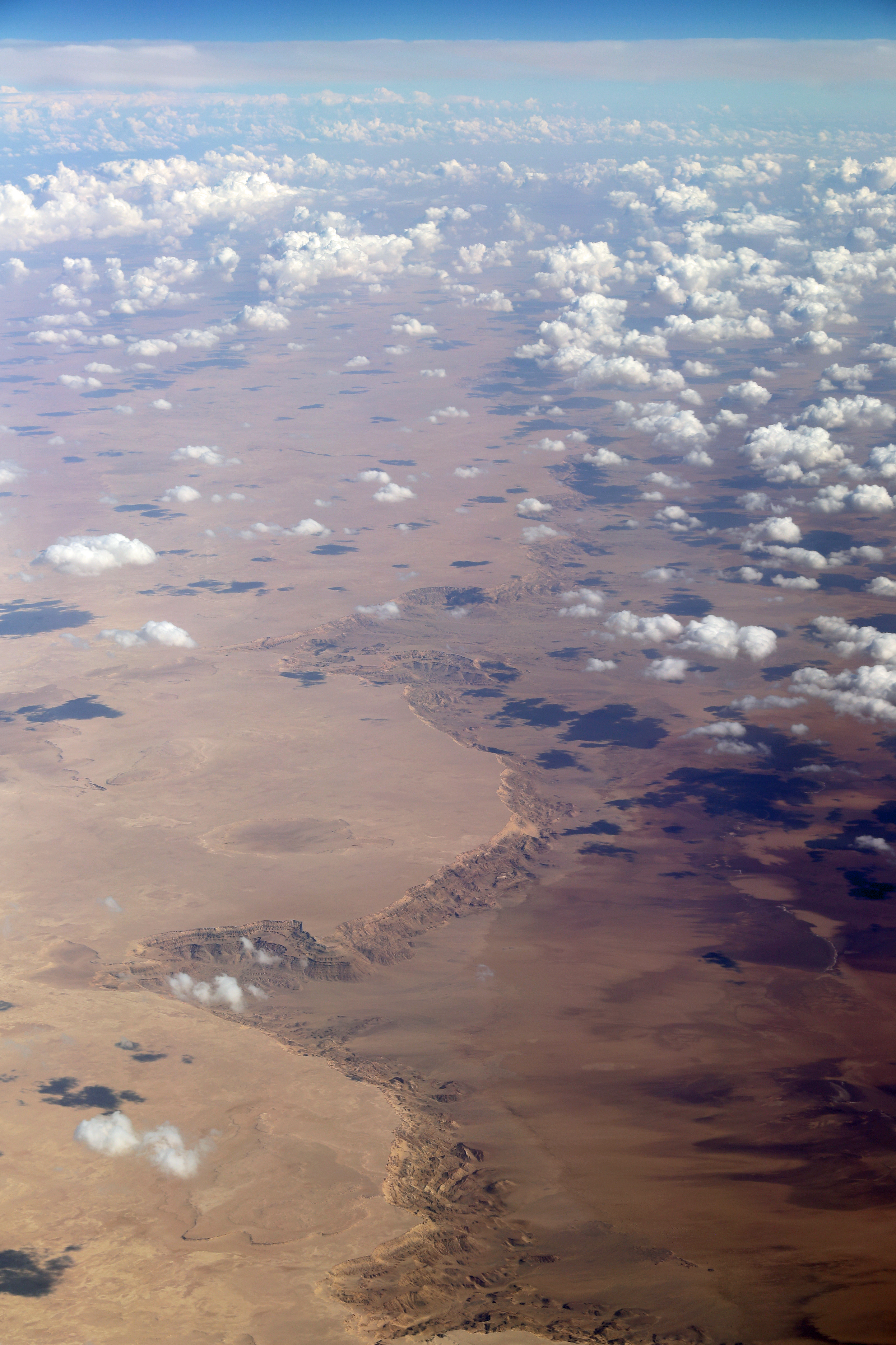 The steep escarpment edge between the El Diffa Plateau (left) and the Qattara Depression (right) in Egypt